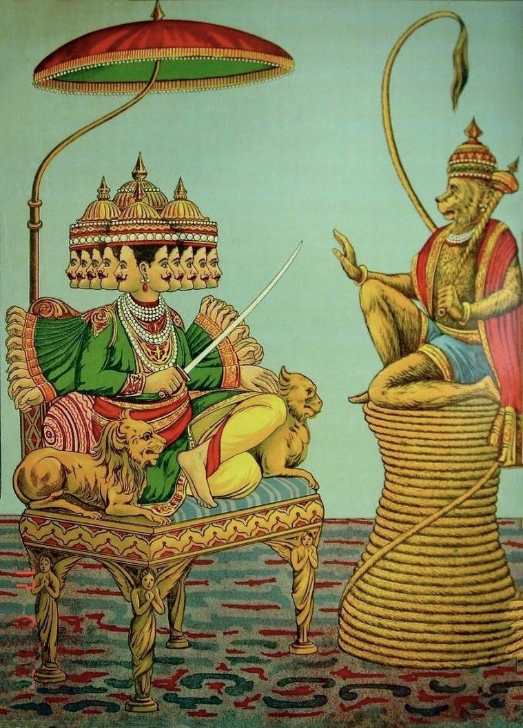 The monkey prince Angad is first sent to give diplomacy one last chance (Ravi Varma studio, 1910's) Source: ebay, Mar. 2006